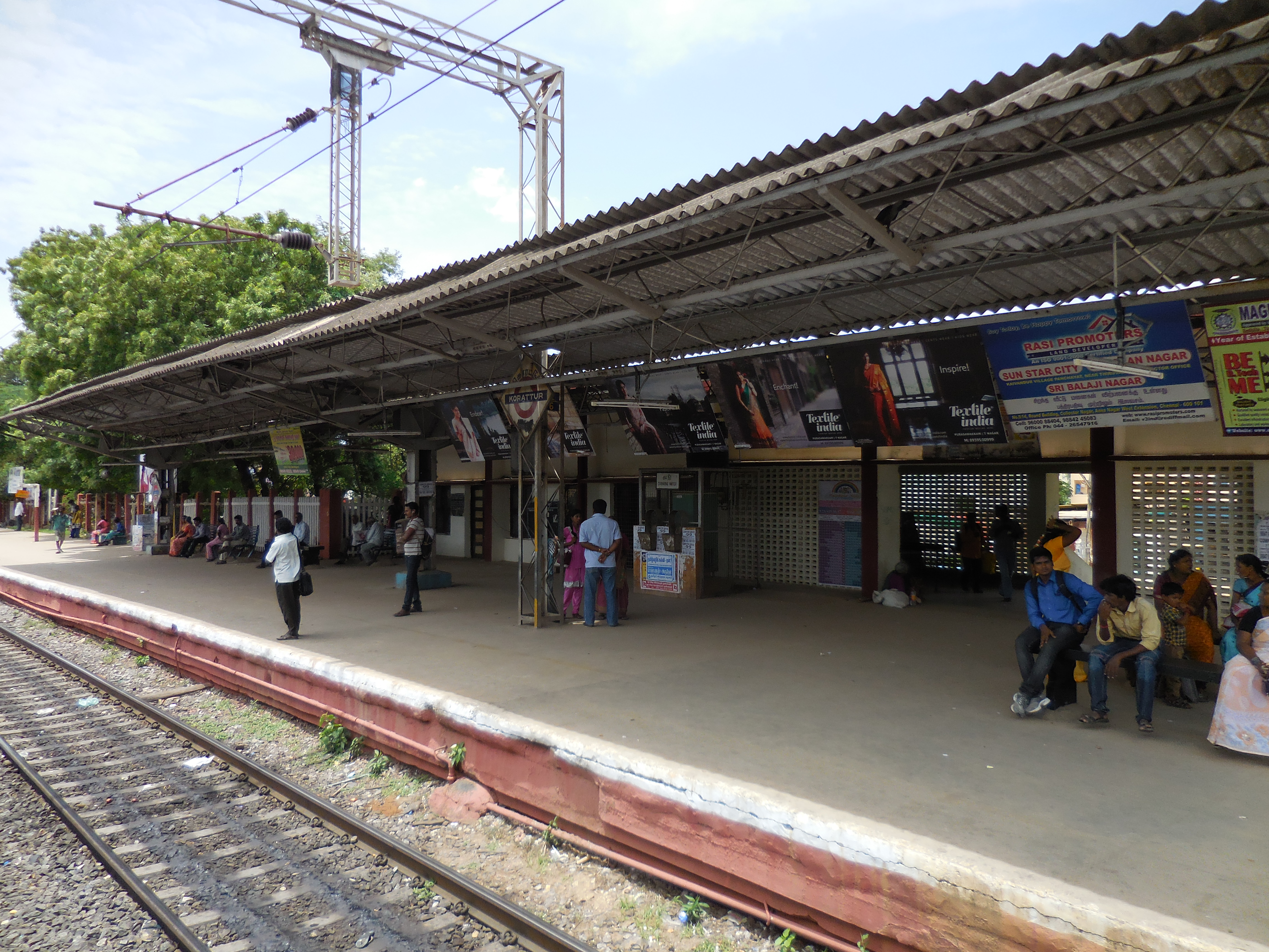 Exit and ticket counter at Korattur Station, Chennai, taken on 15 July 2014 at noon.